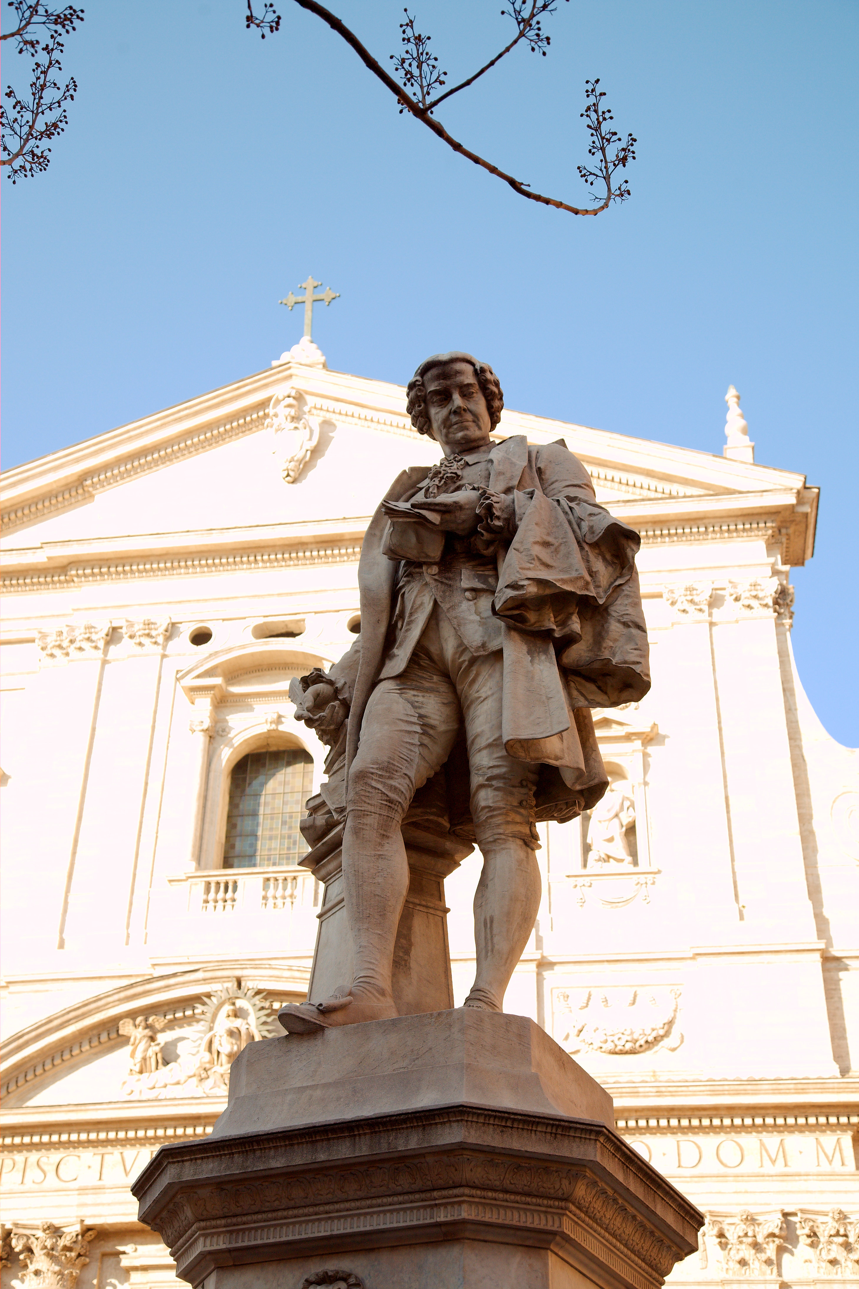 The monument (circa 1900) to Pietro Metastasio, sculpted by Emilio Gallori (1846-1924), in "Piazza della Chiesa Nuova" square in Rome, Italy.